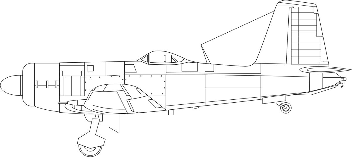 Blackburn Firebrand profile view